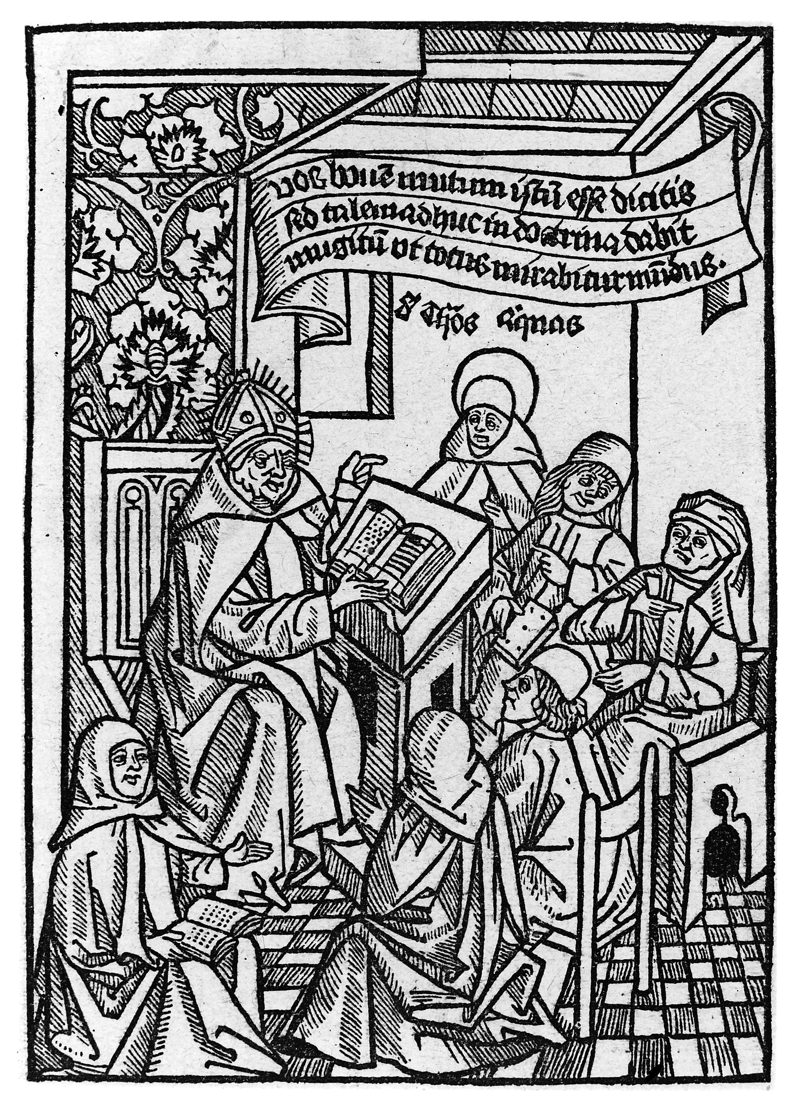 Portrait of Albertus Magnus or Albert Le Grand. General Collections Keywords: Albertus Magnus